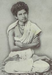 Hindu Saint, founder of Mahanam Sampraday